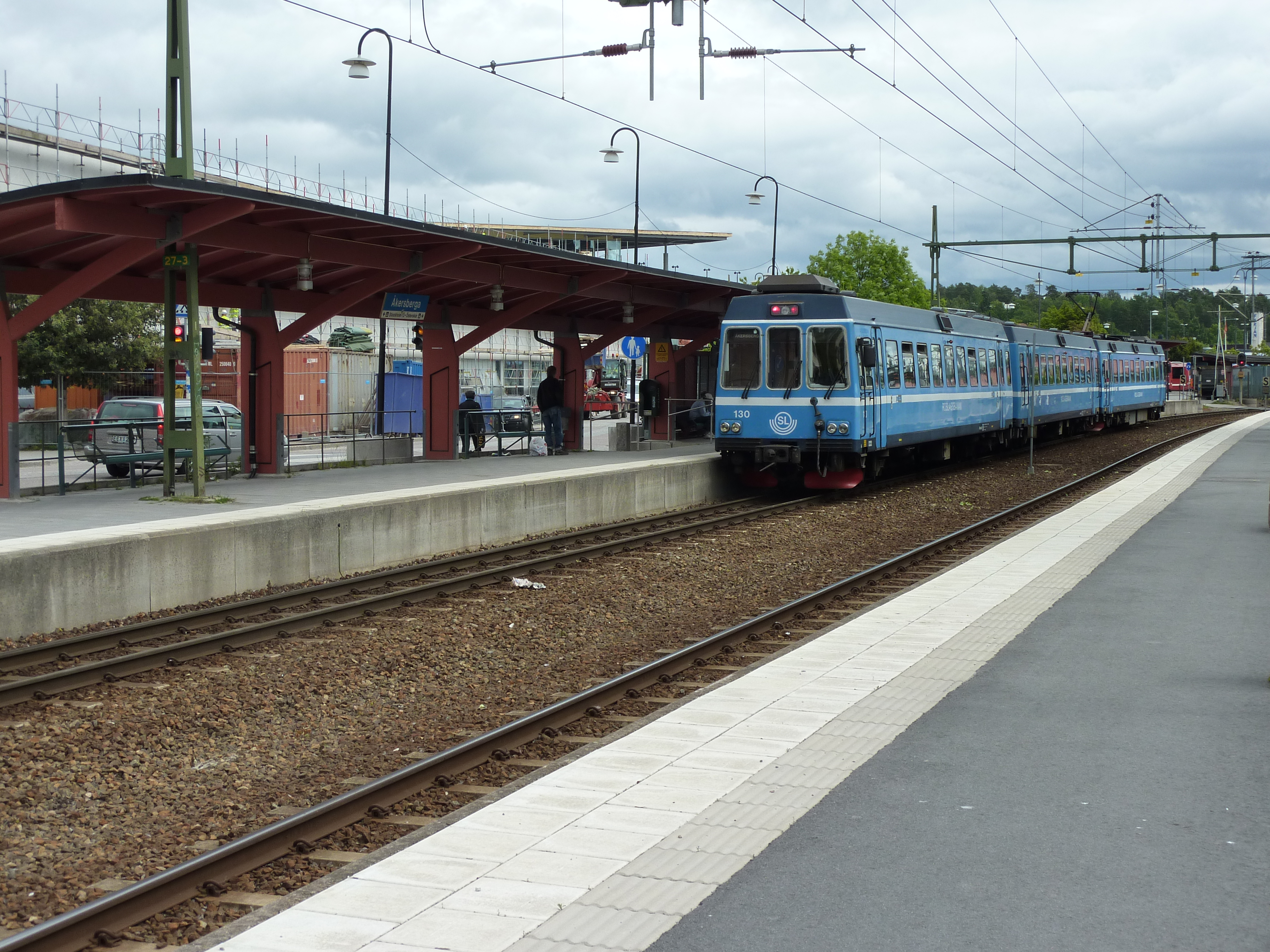 Railway station Åkersberga in Sweden